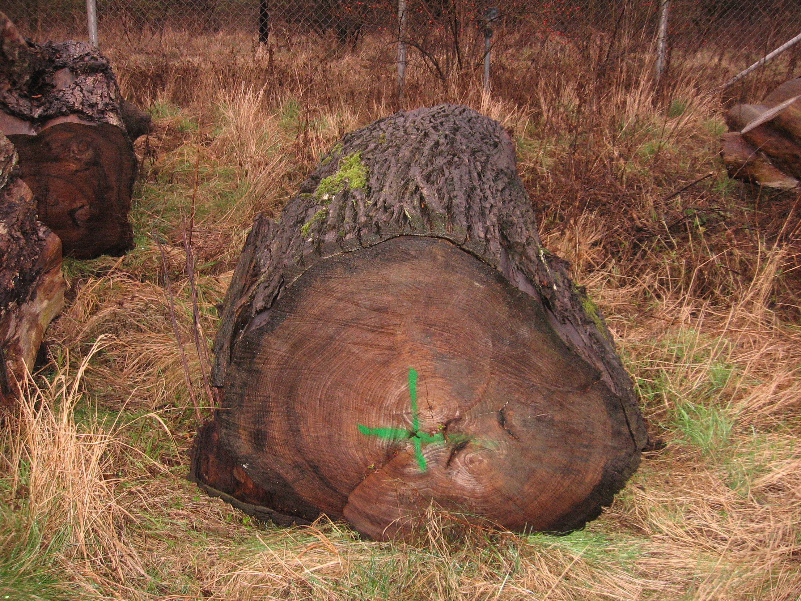 A Log in Lund.